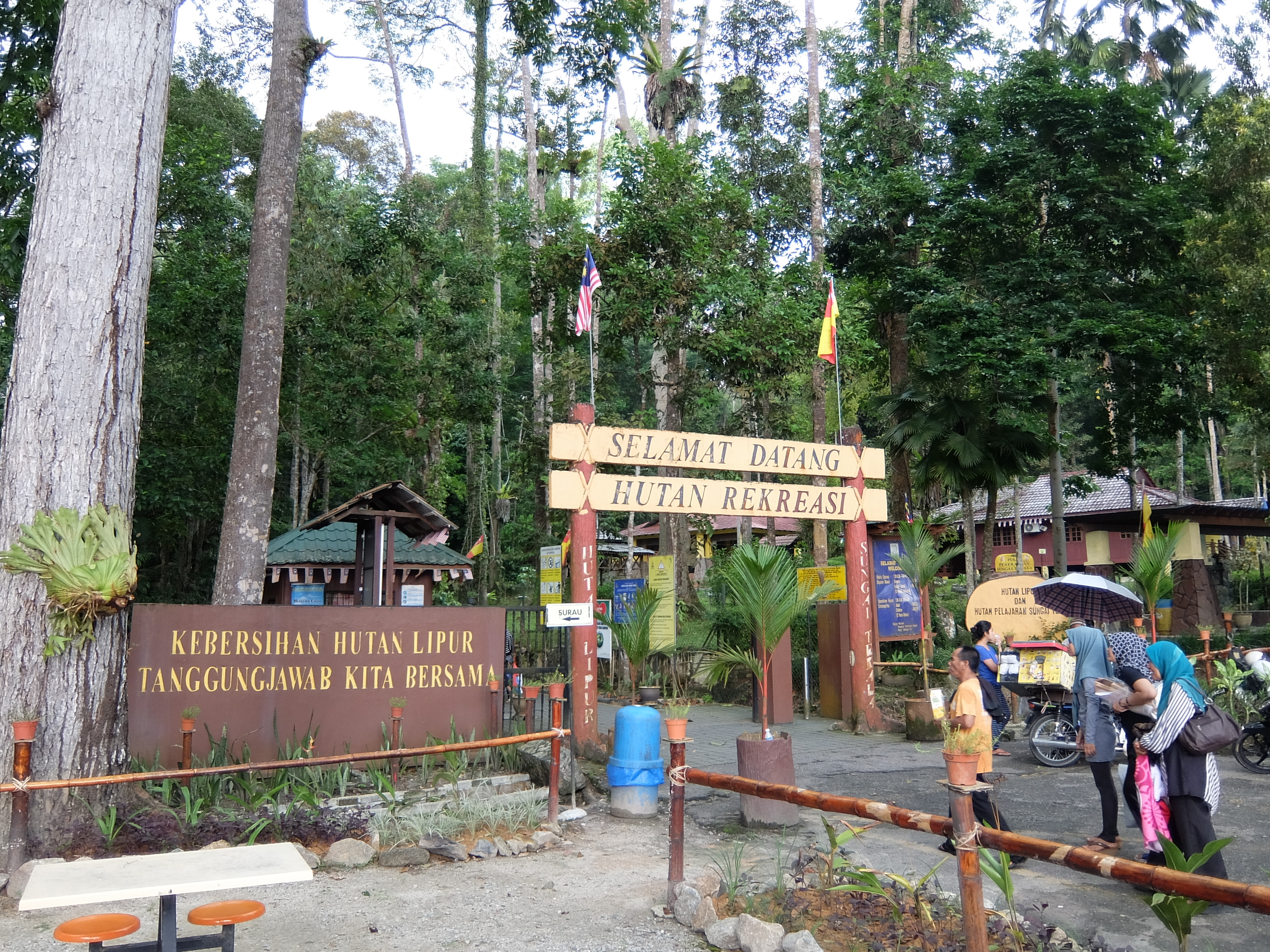 Sungai Tekala Recreational Forest, Semenyih, Hulu Langat, Selangor, Malaysia